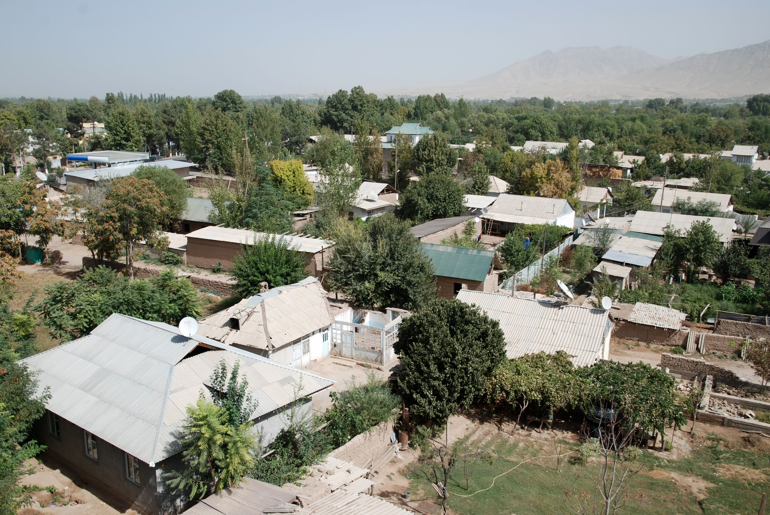 Qabodiyon, center from Kala-i Mir